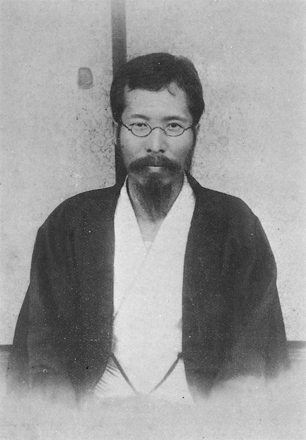 Portrait of Kinoshita Naoe (木下尚江, 1869 – 1937)